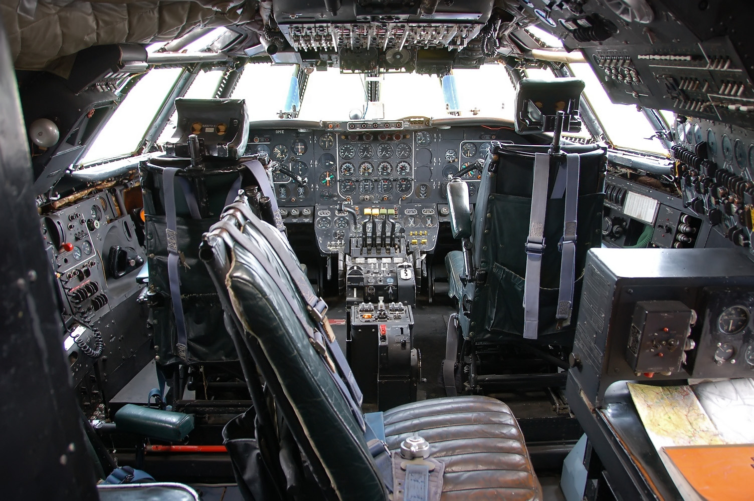 The cockpit of the Bristol Britannia 312 G-AOVT at the Imperial War Museum, Duxford, photographed by Robin Stevens on 26 May 2007.